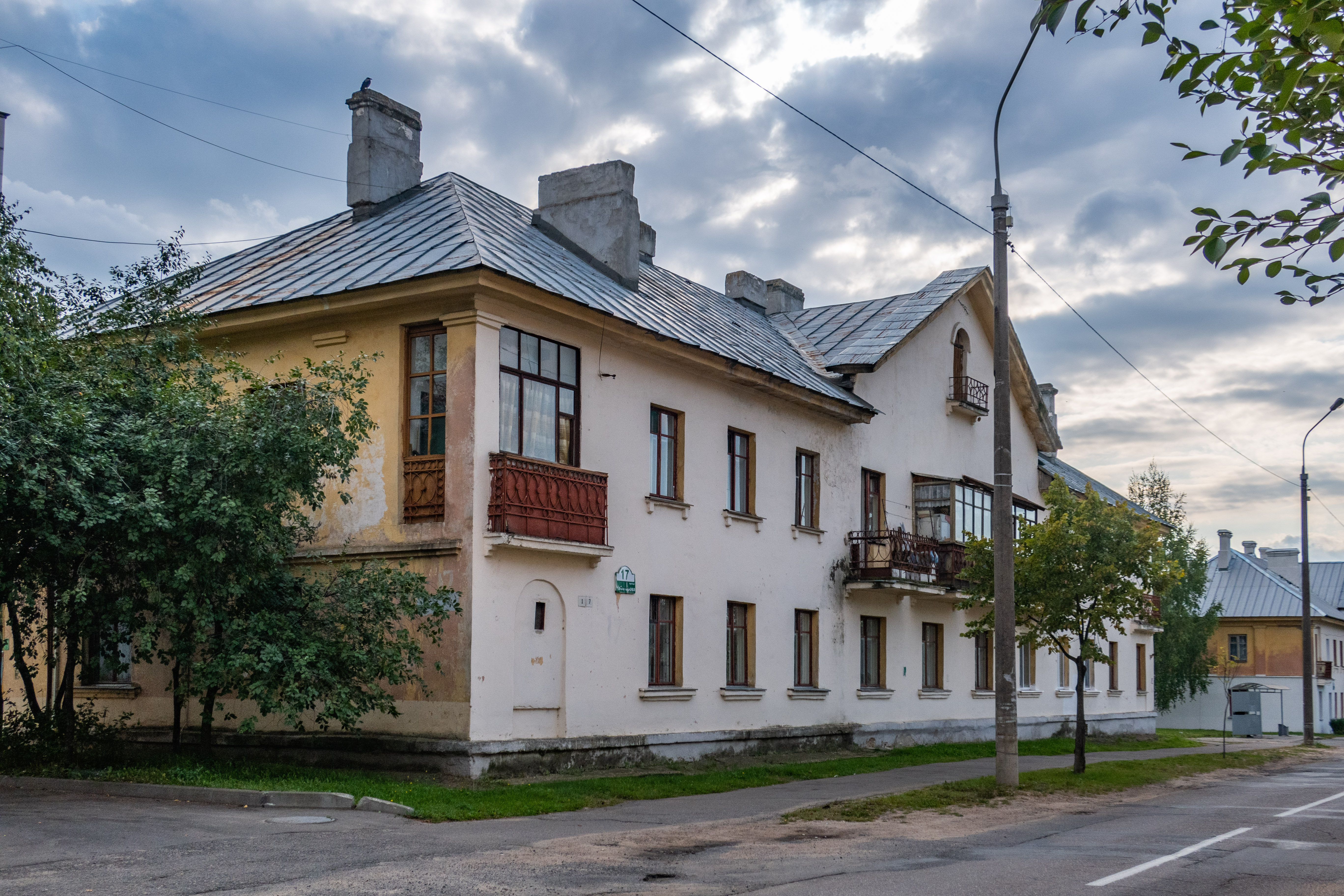 Čabatarova street. Minsk, Belarus